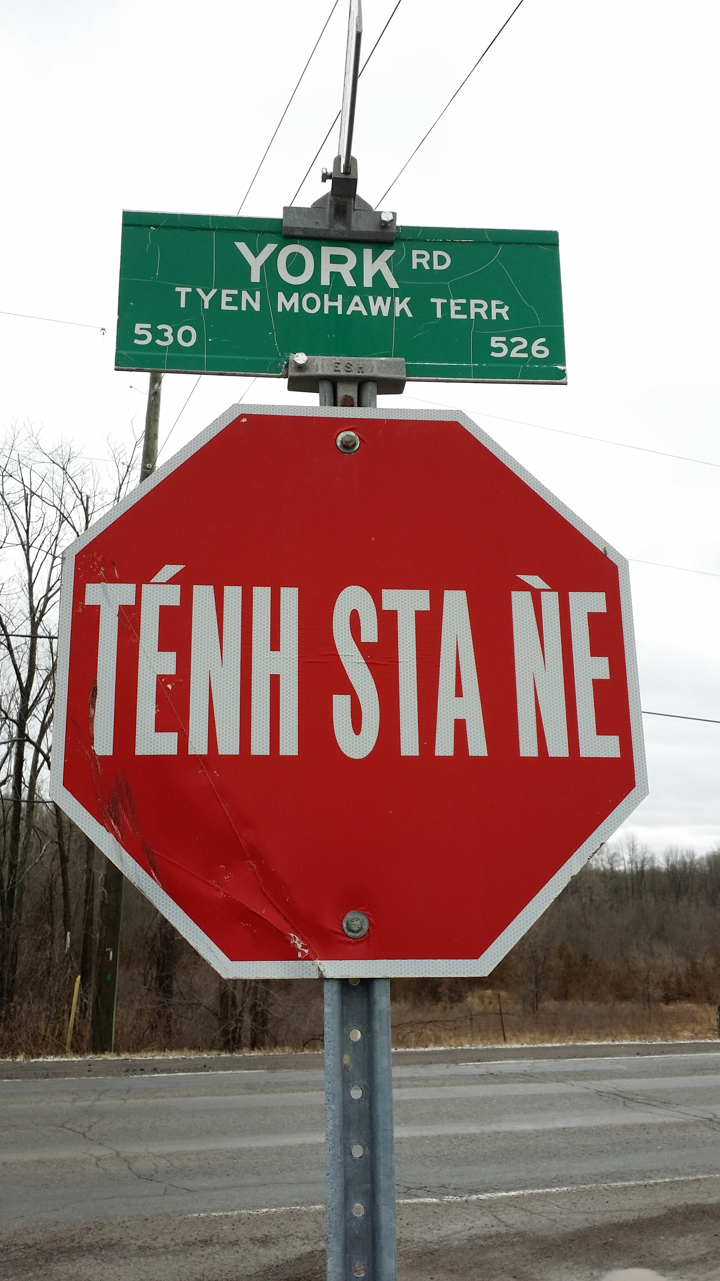 Tyendinaga Mohawk Territory, which is a 73 km² (18000-acre) Mohawk Indian reserve on the Bay of Quinte in southeastern Ontario, Canada, east of Belleville and immediately to the west of Deseronto